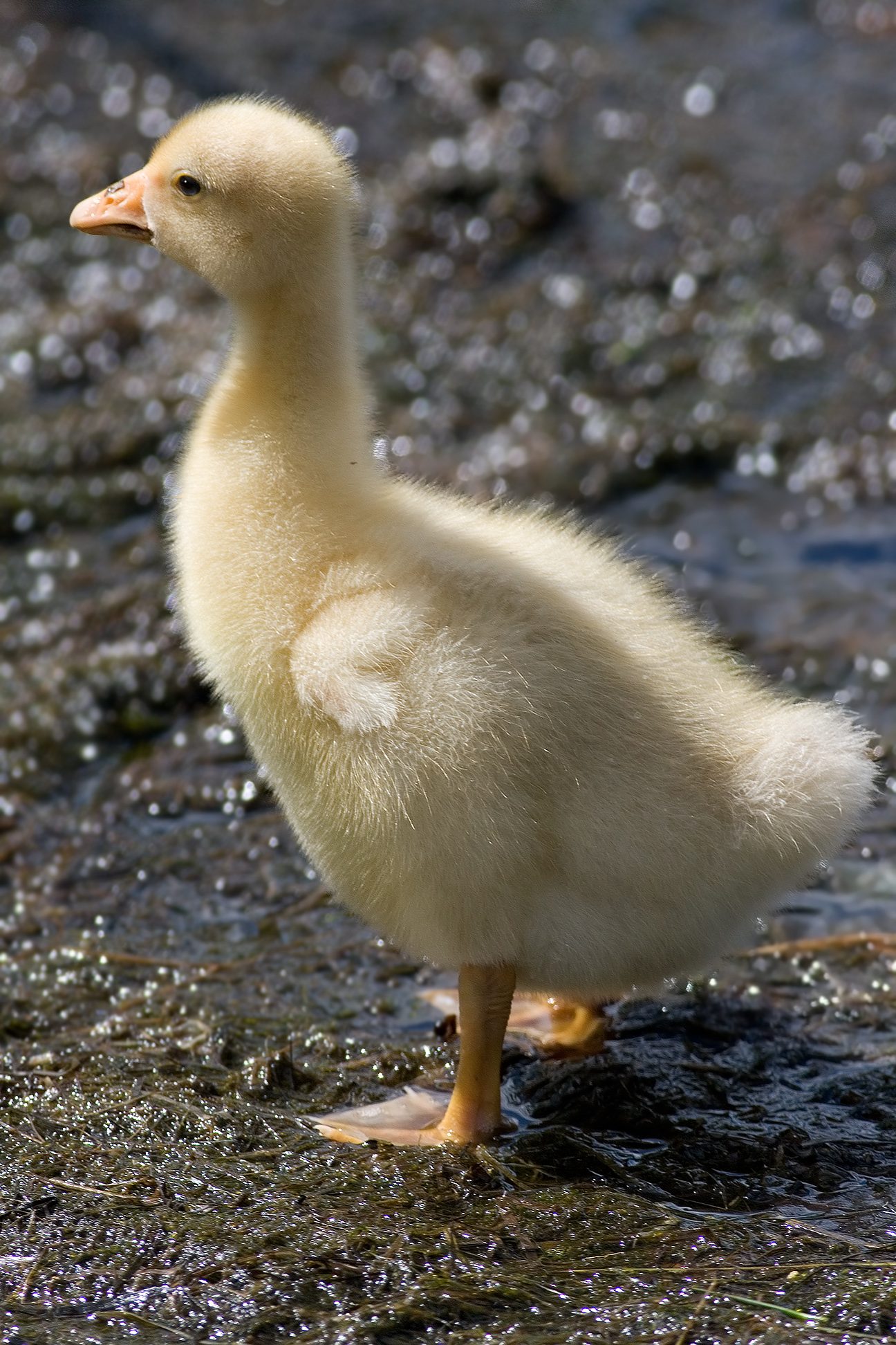 Embden goose chick Camera data Camera Canon EOS 400D Lens Canon EF 400mm f5.6L Focal length 400 mm Aperture f/6.3 Exposure time 1/1600 s Sensivity ISO 400